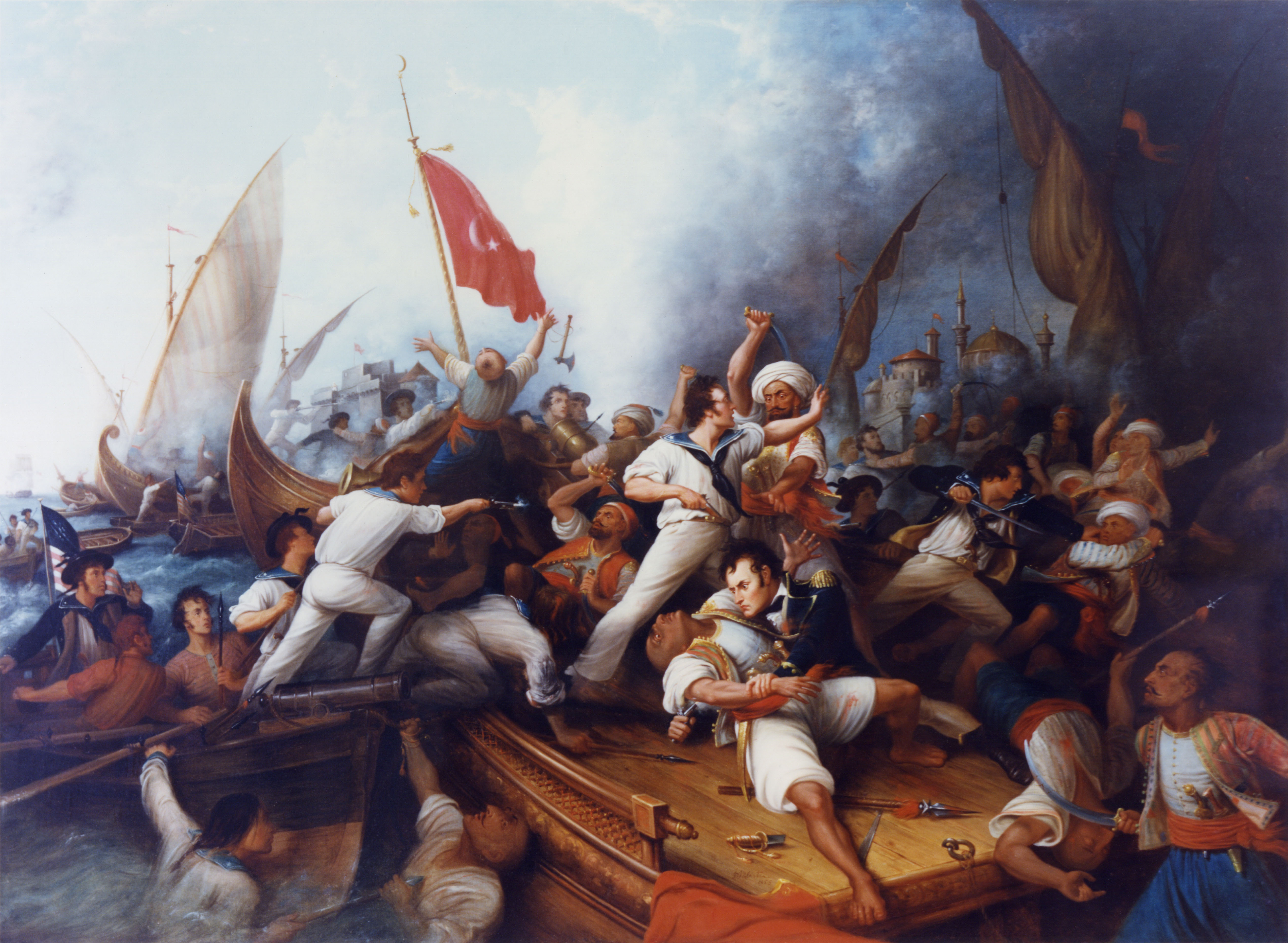 Oil painting of Decatur Boarding the Tripolitan Gunboat during the bombardment of Tripoli, 3 August 1804. Lieutenant Stephen Decatur (lower right center) in mortal combat with the Tripolitan Captain.